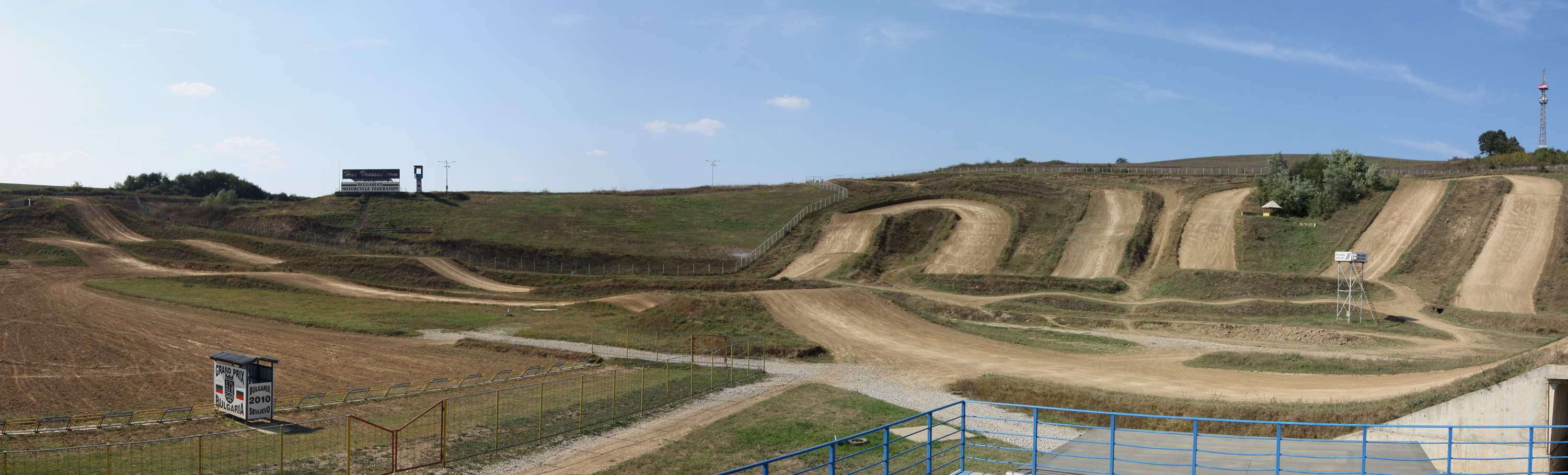 Sevlievo motorcycle track Пистата на мотополигона в Севлиево (Горна Росица)